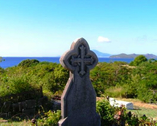 I took the photo: a view from the parish church of St. Thomas Lowland Parish, Nevis, West Indies; the island of St. Kitts is visible in the distance.